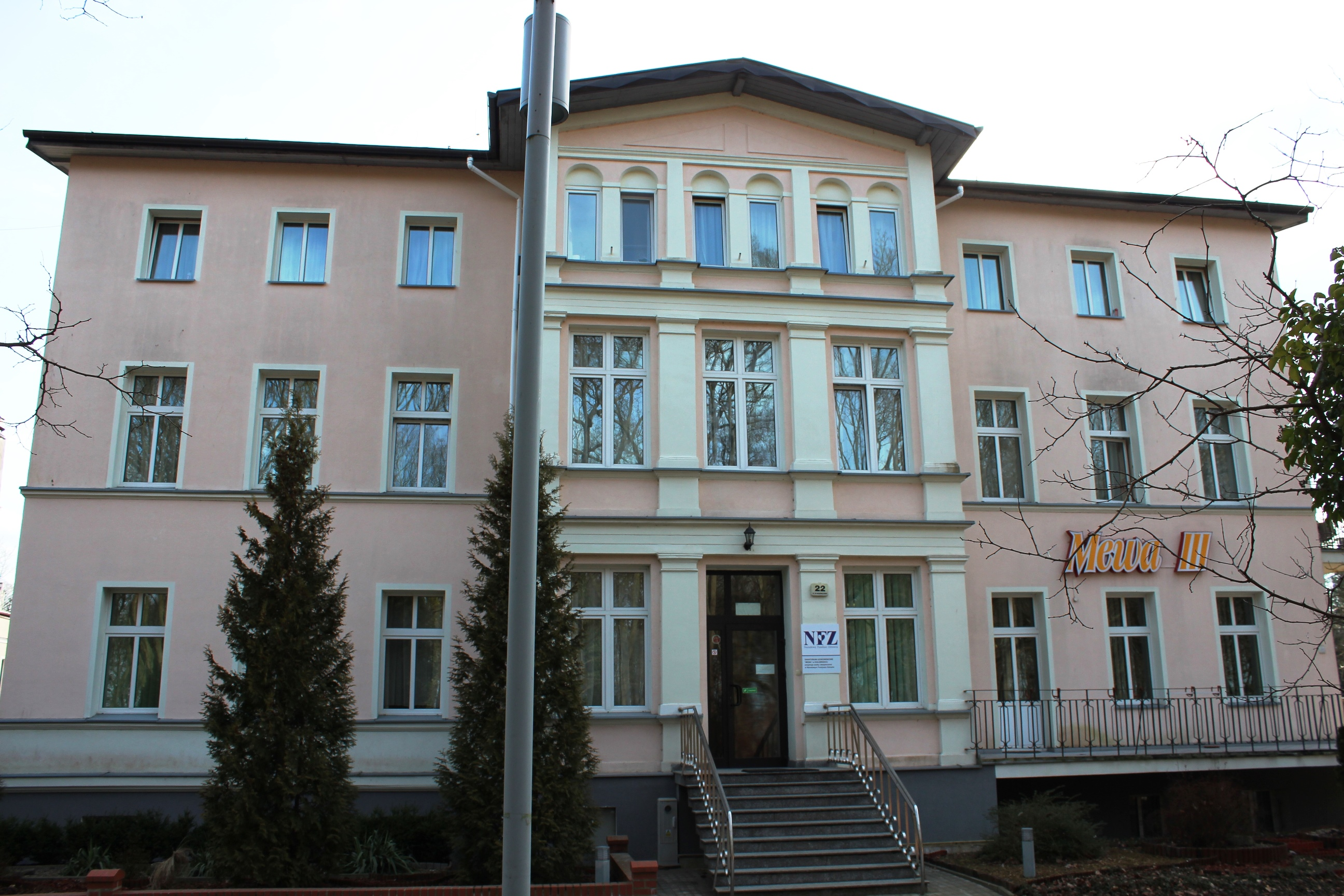 Mewa III Sanatorium in Kołobrzeg